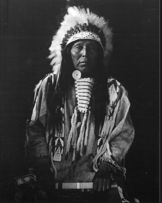 Cast card of Chief Flying Hawk sold at Wild West shows. Other information This is a "cast card" photo sold by Native American performers with Wild West shows.